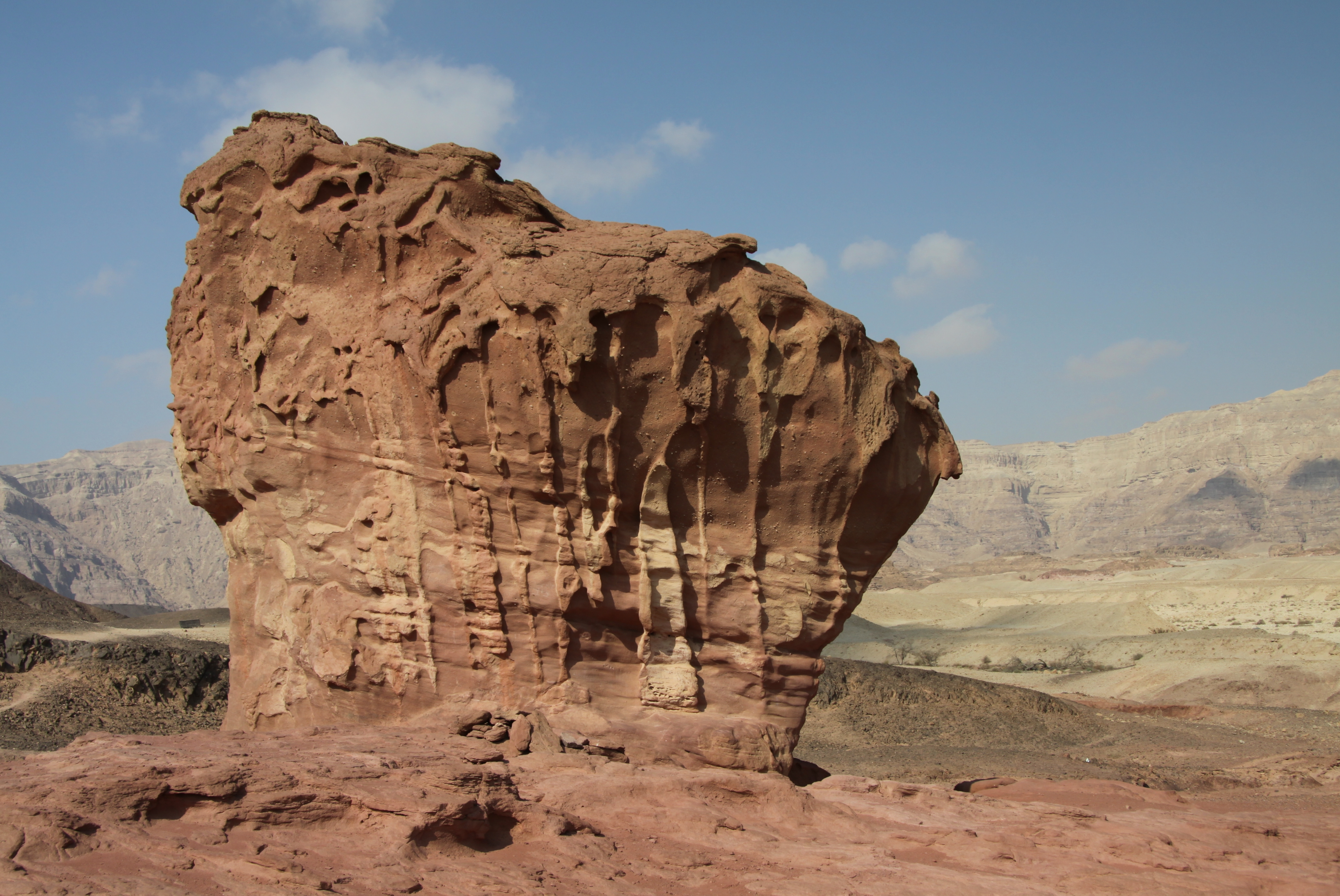 Mushroom and a half, result of wind erosion, in Timna Park, Southern Israel